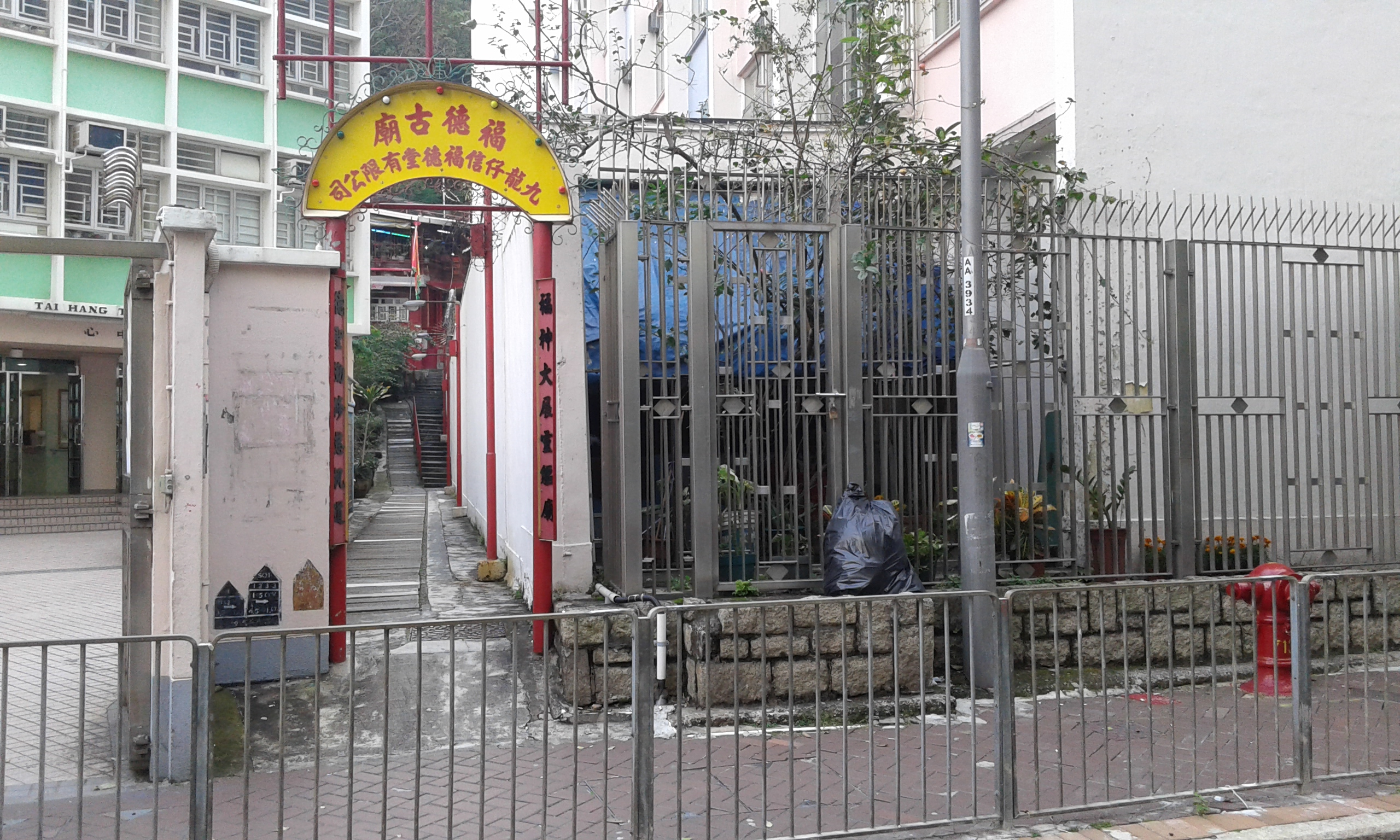 Fook Tak Temple (Tong Yam Street)